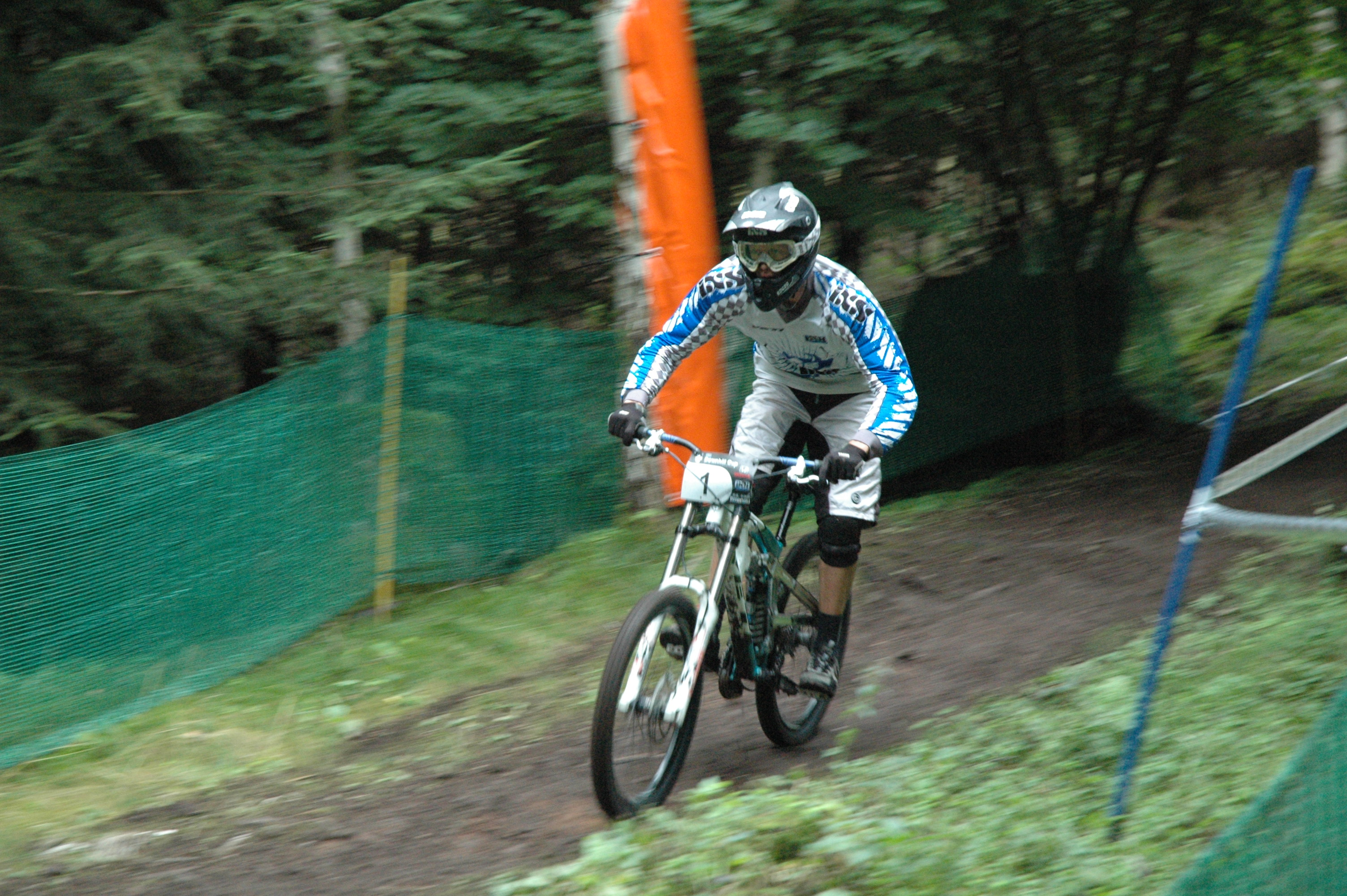 Nick Beer during training at the iXS European Downhill Cup race "Absolute Abfahrt" Ilmenau, Germany. August 23/24 2008